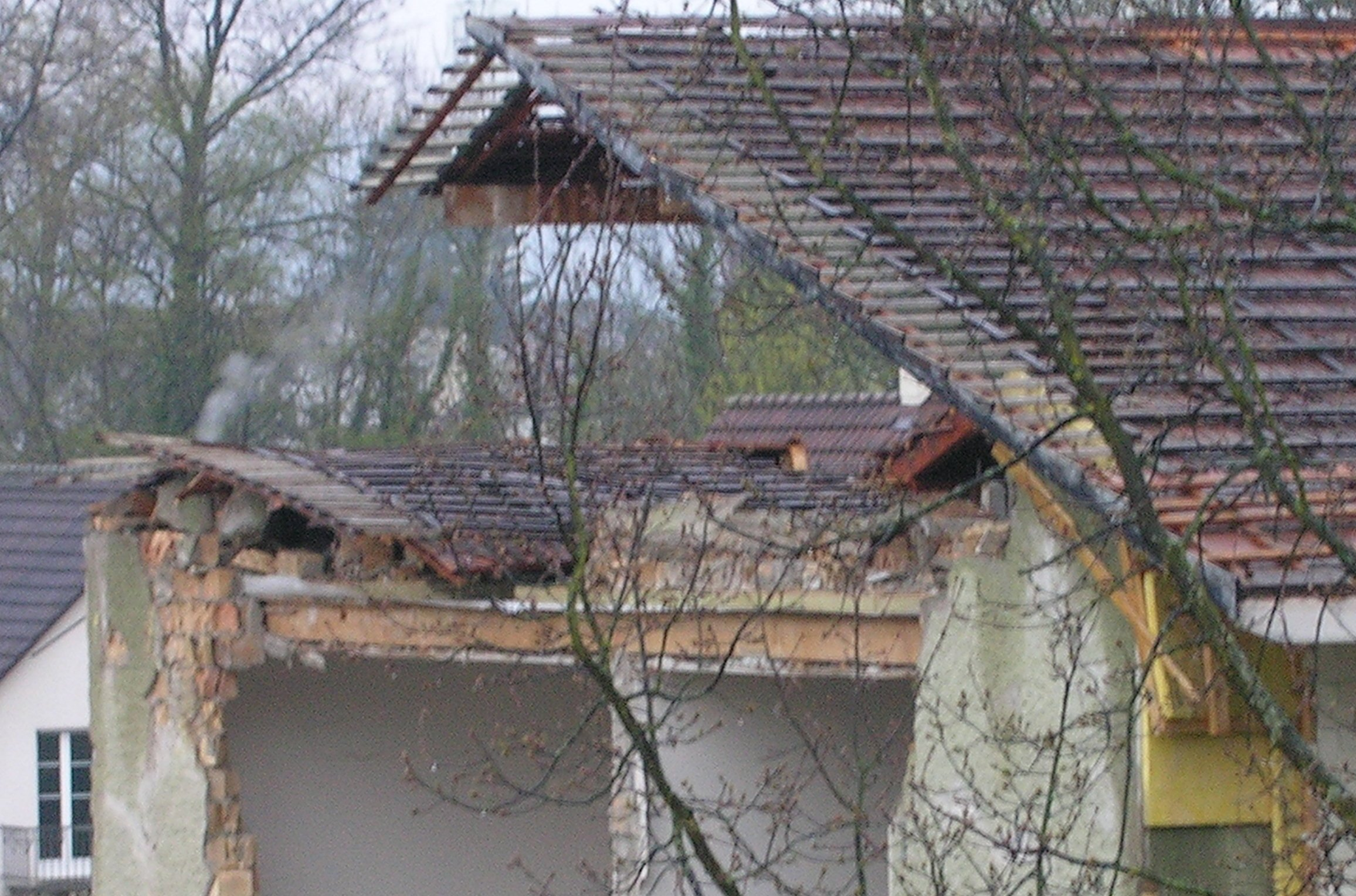 Swiss house under demolition (so internal structure is visible)